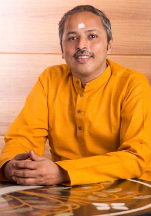 Famous percussionist from Chennai, India